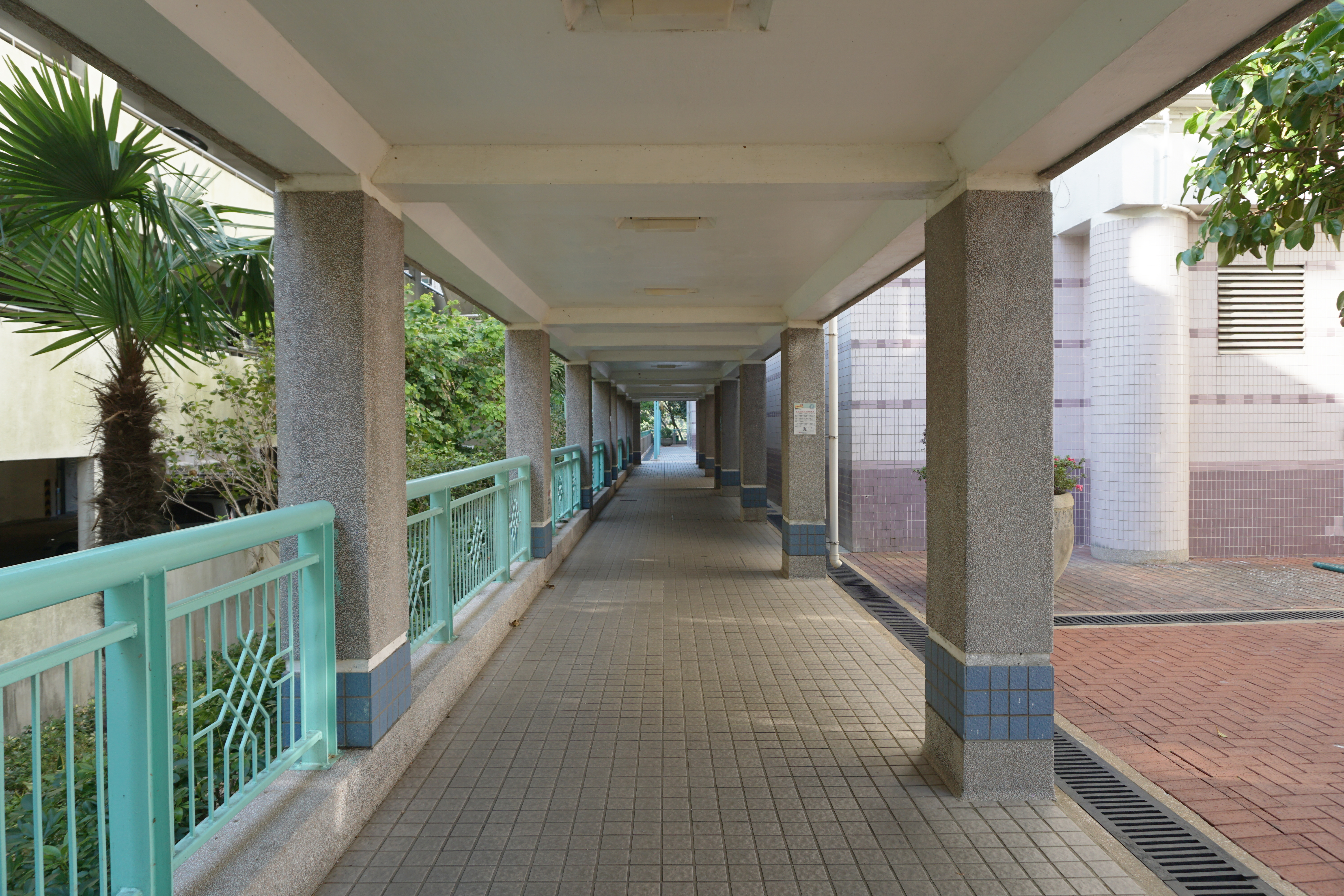 Hong Yat Court in Lam Tin, Hong Kong.